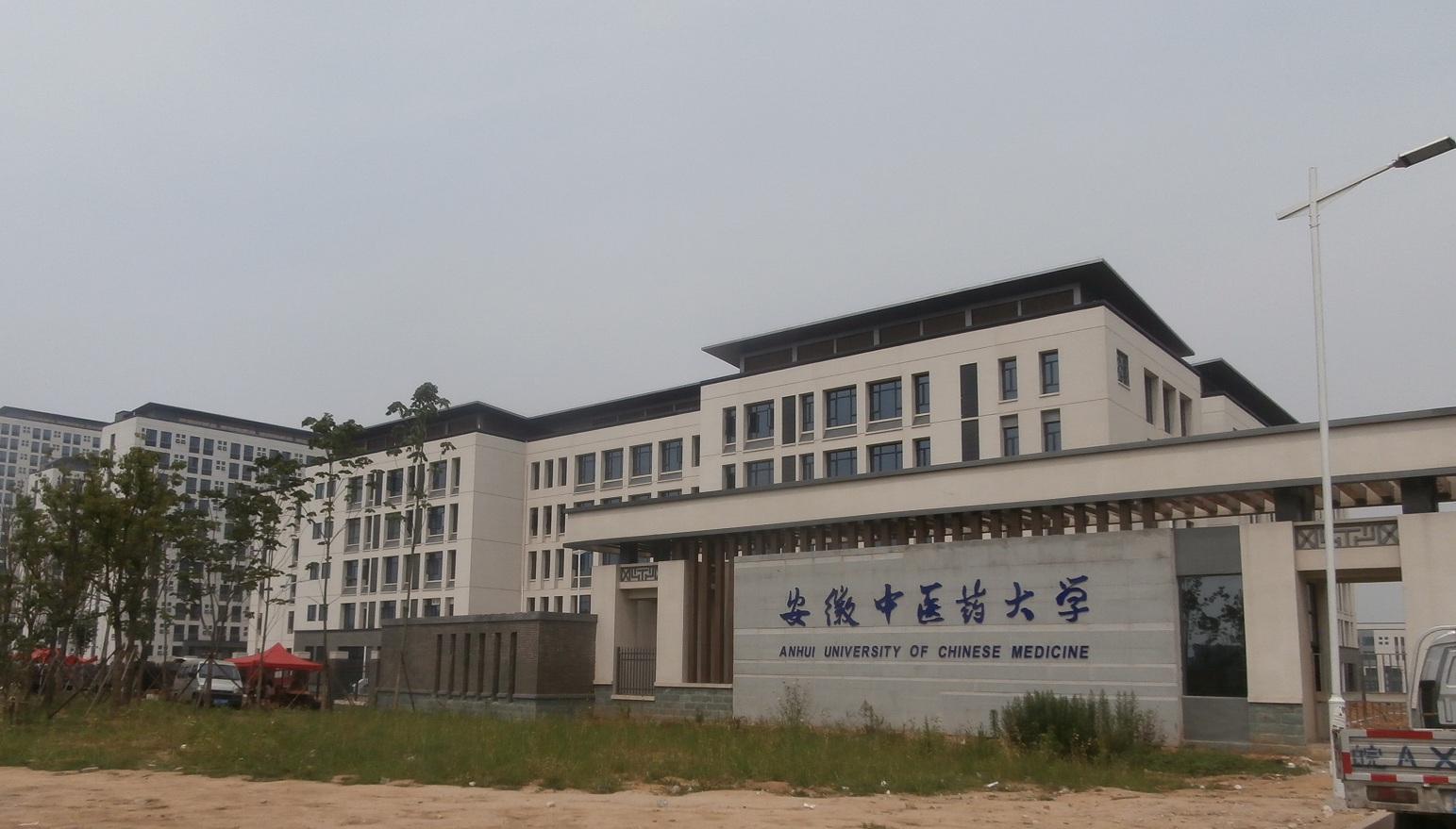 The west gate of Anhui University of Chinese Medicine at Modian